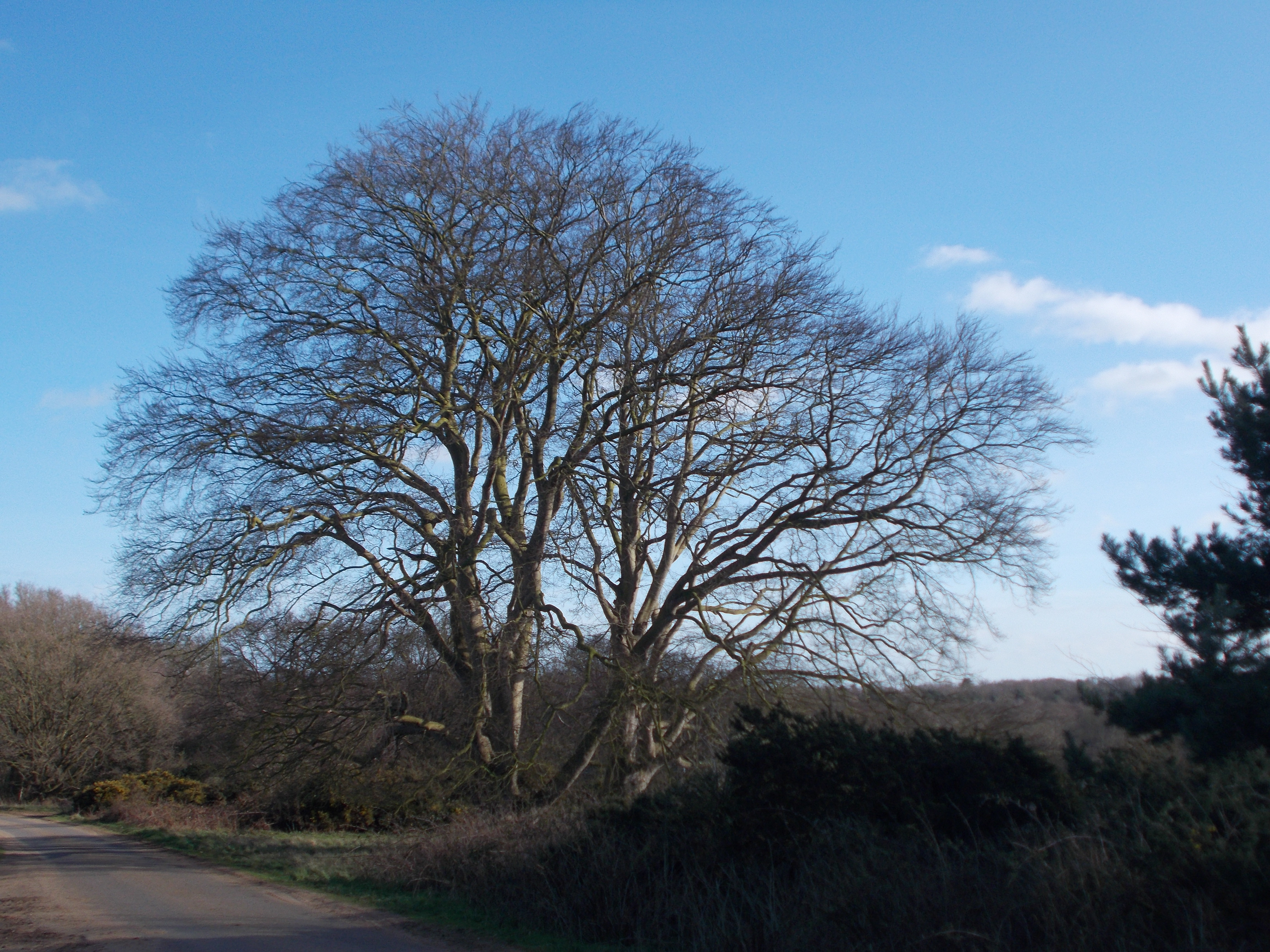 Two beech trees surviving from one of the quincuncial 'Clumps' planted as an avenue near Butley Priory, in March.